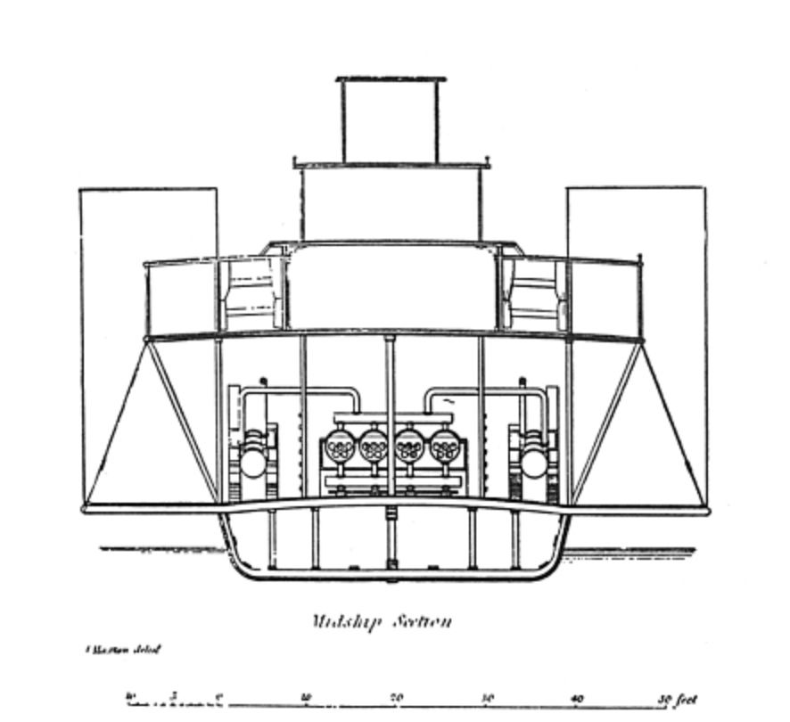 Diagram (cross-section) of a side-wheel steamboat, showing position of cabins, boilers, engines, paddle wheels, main deck, hull and guards. First published in 1861.